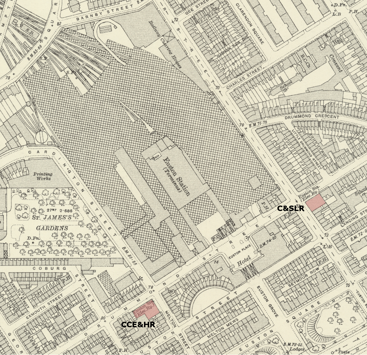 Location of the Underground station buildings opened at Euston in 1907 by the Charing Cross, Euston and Hampstead Railway (CCE&HR) and the City and South London Railway (C&SLR). Highlighted on an Ordnance Survey map. Original map scale: 25 inches to One Mile/880 feet to One Inch.